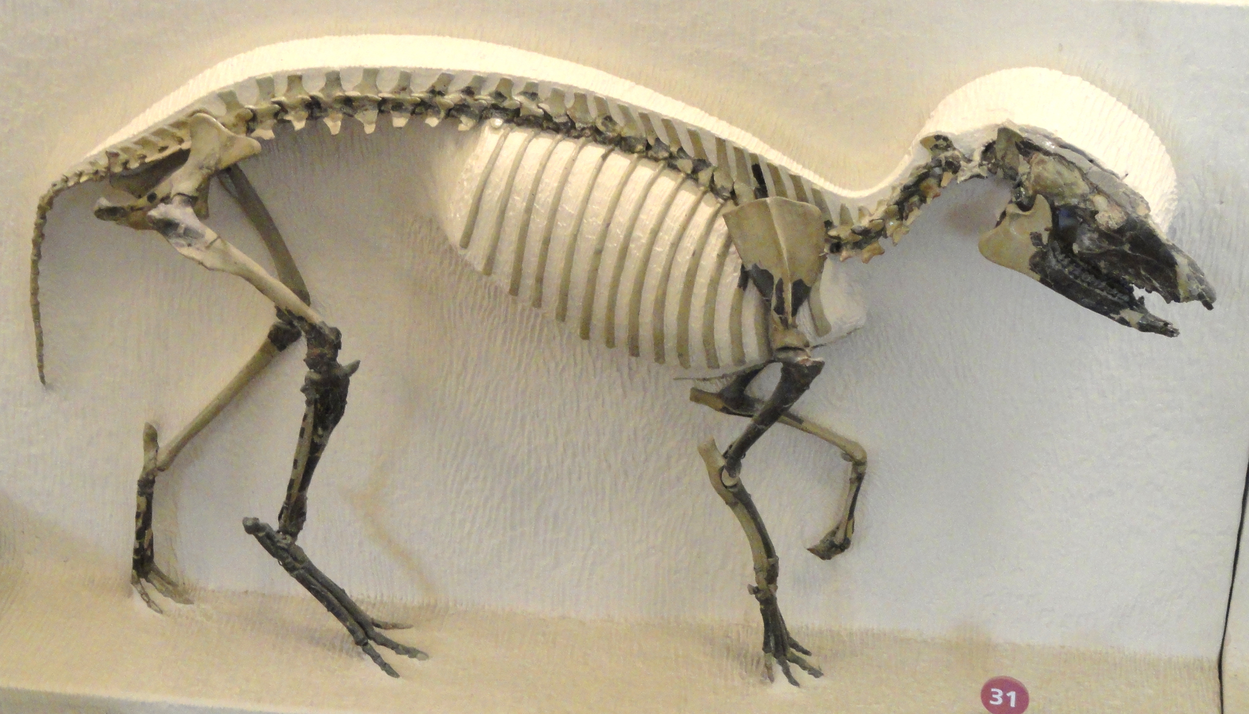 Exhibit in the fossil collection of the American Museum of Natural History, Manhattan, New York City, New York, USA.